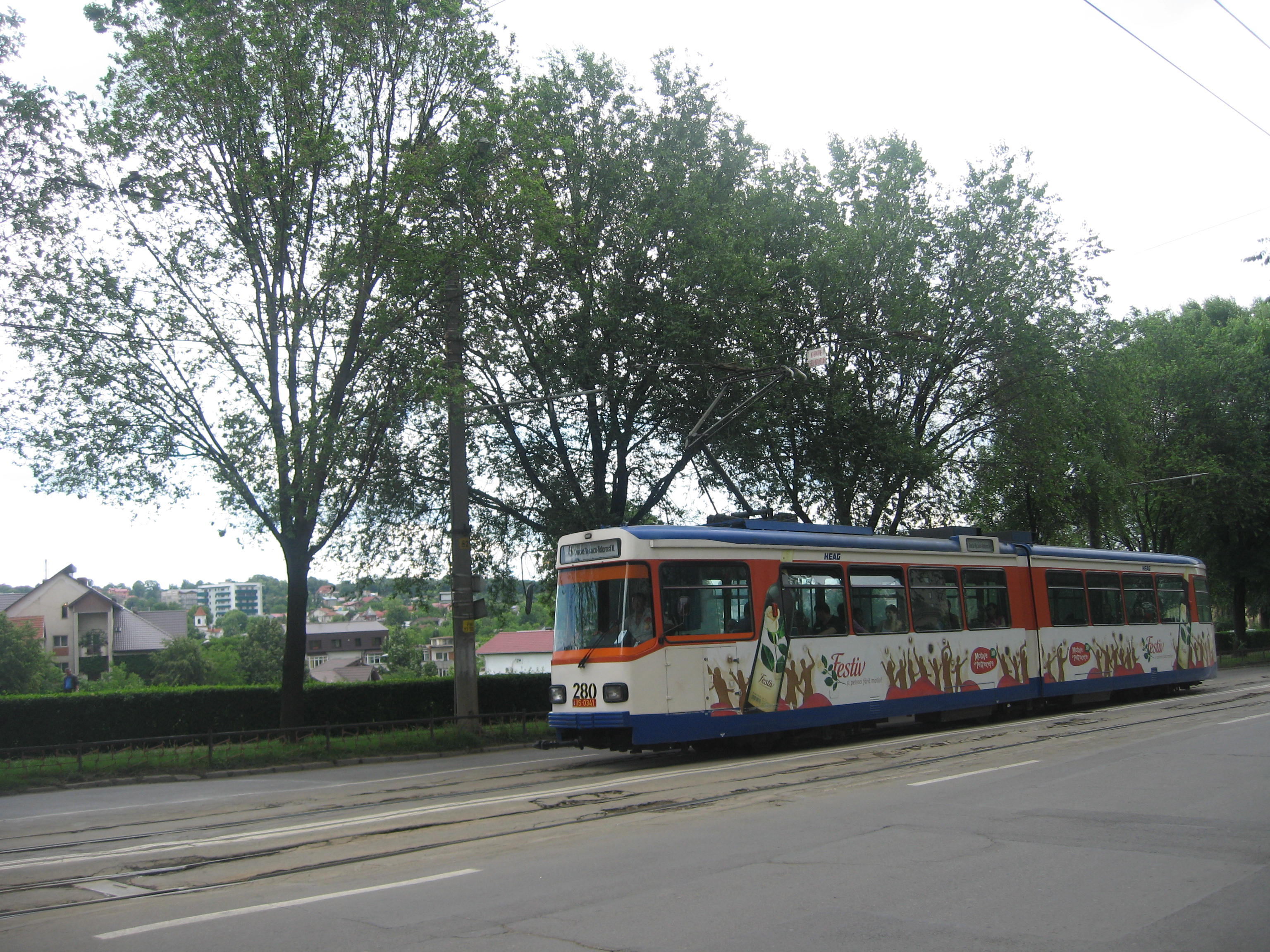 Tramyay in Iaşi